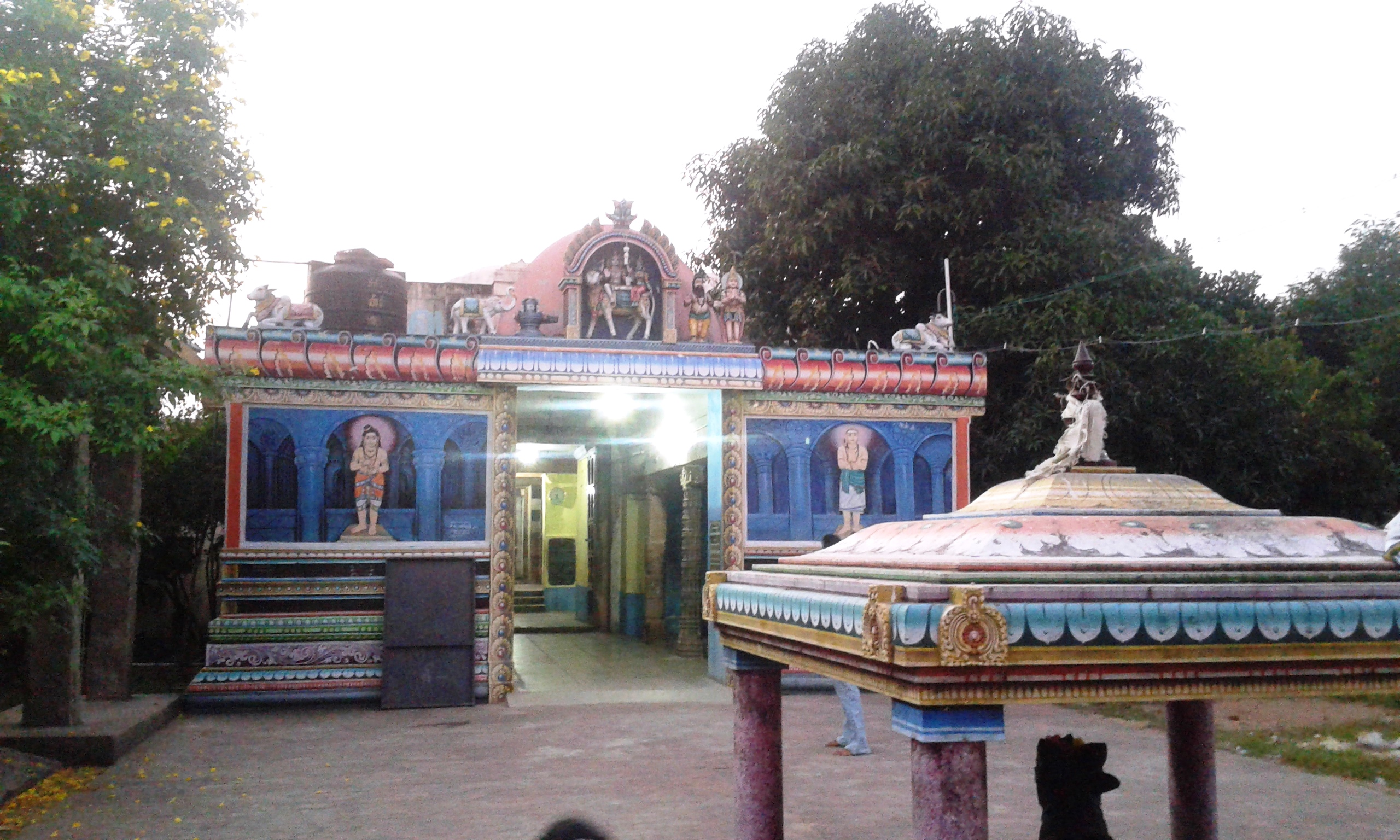 Innambur Ezhutharinathar Temple